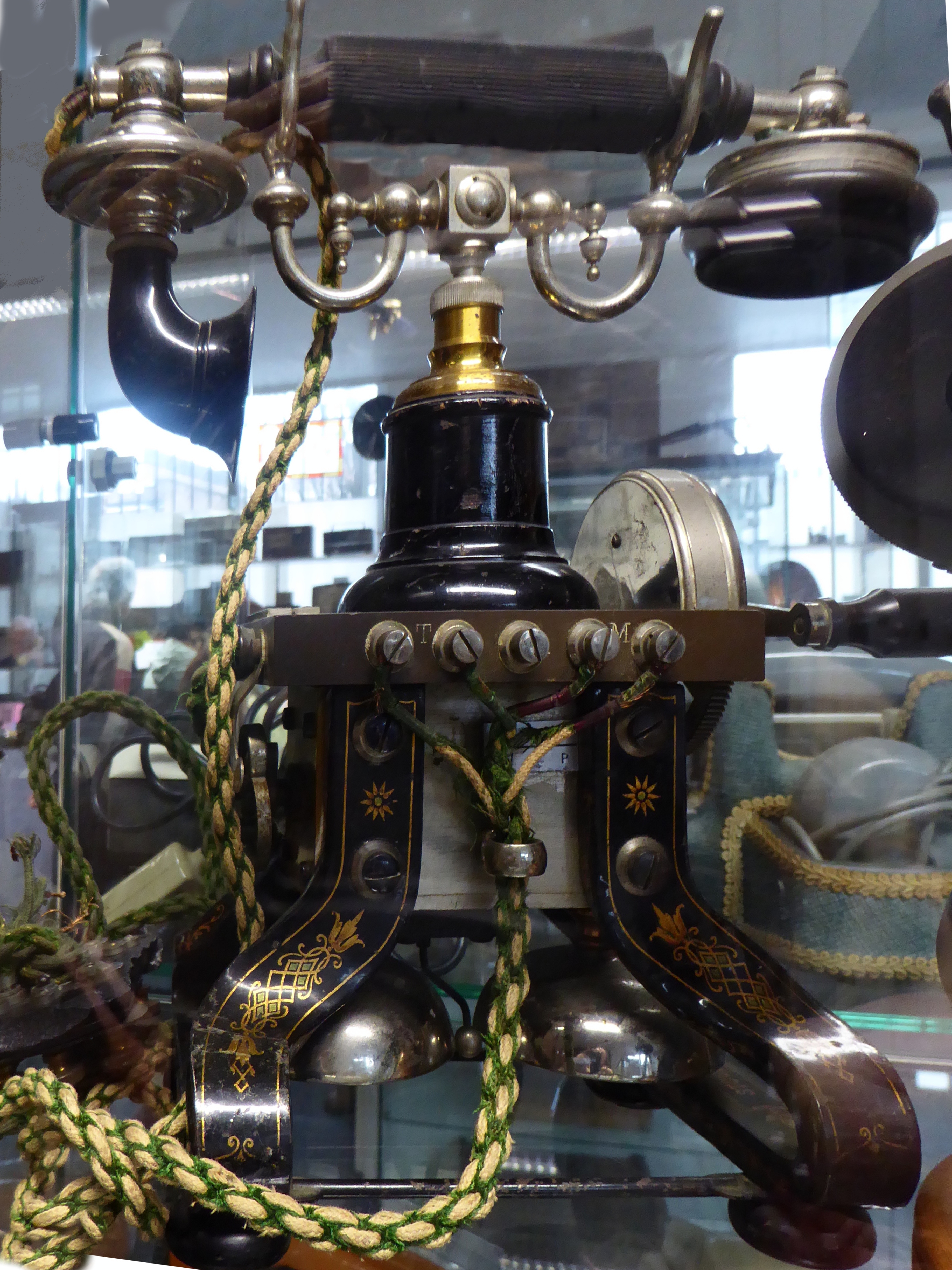 Swedish Ericsson phone 1894.- Musée régional des télécommunications en Flandres, Marcq-en-Barœul, Nord.- France